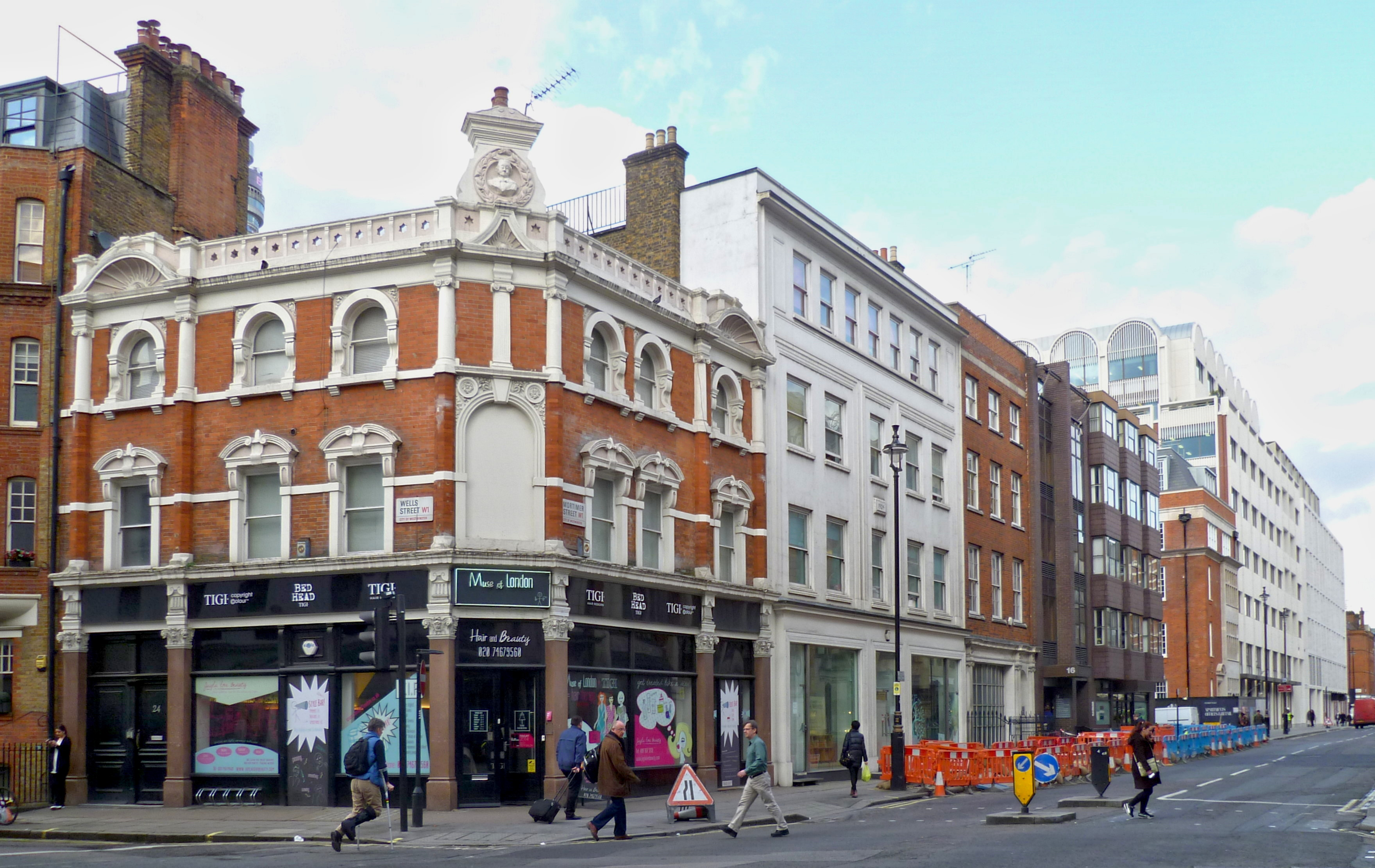 London